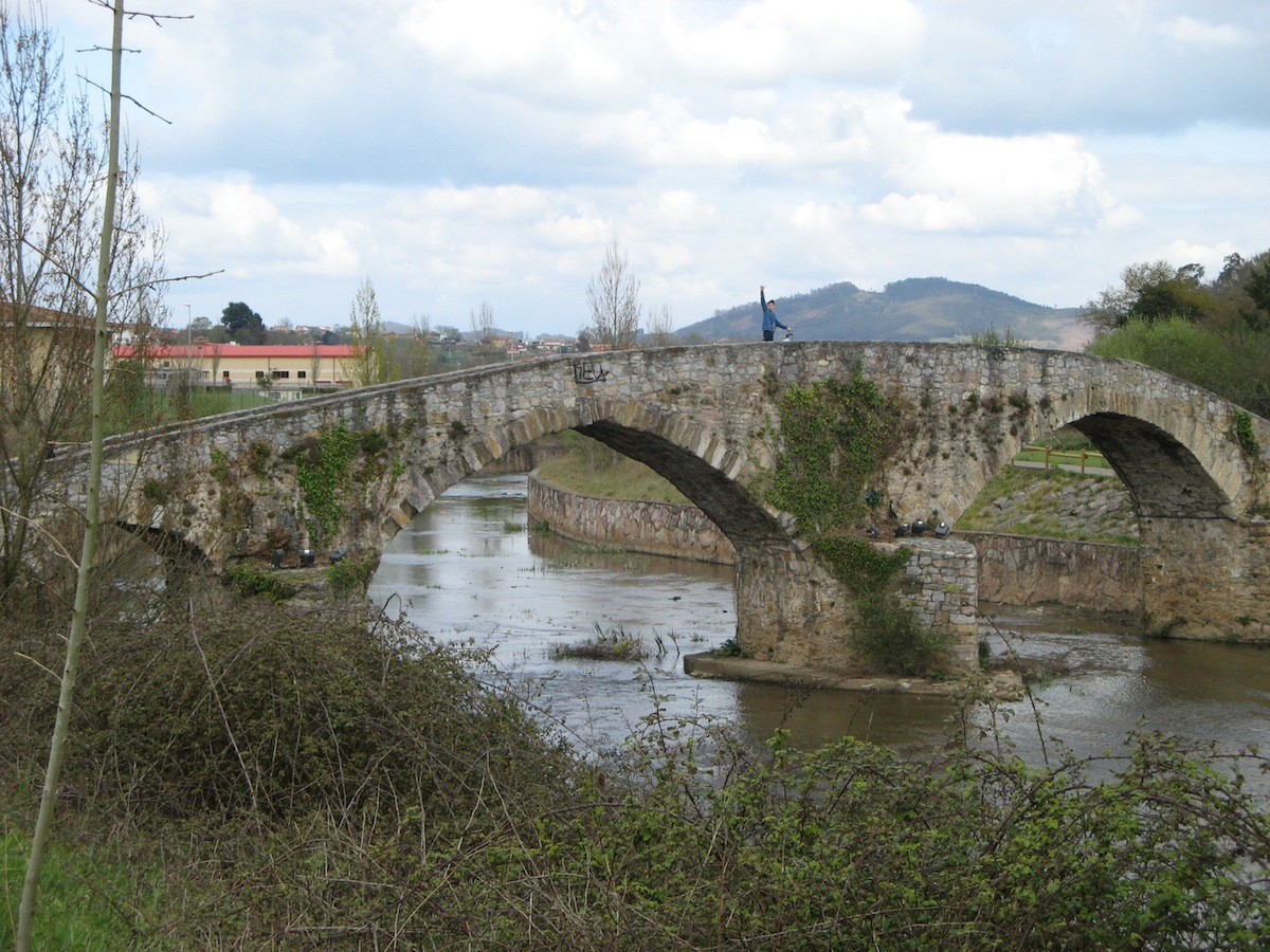 Nora River and bridge, next to Lugones, Asturias, Spain